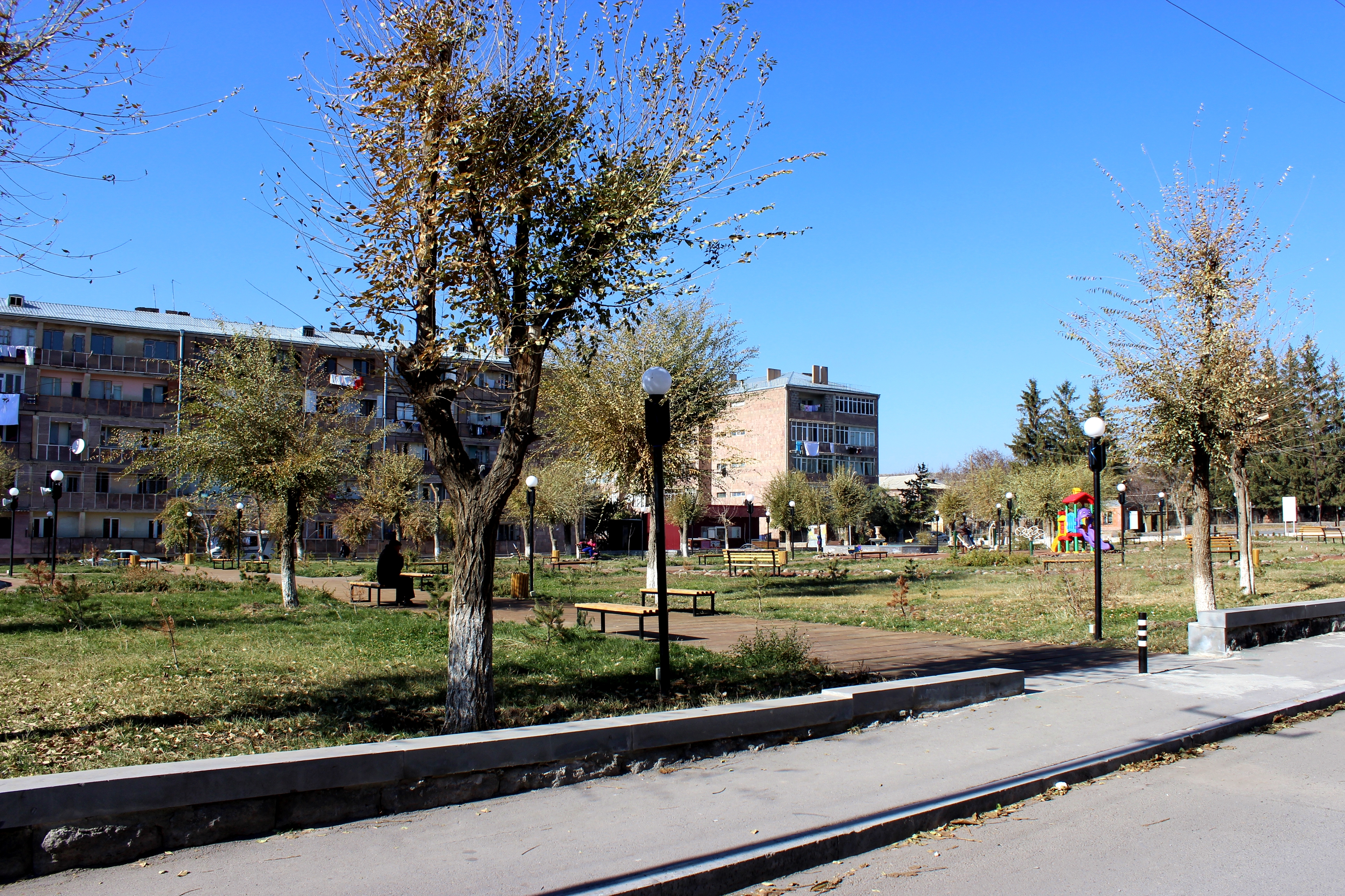 A small park located between a residential apartment block in the small town of Talin, Aragatsotn Province, Armenia.